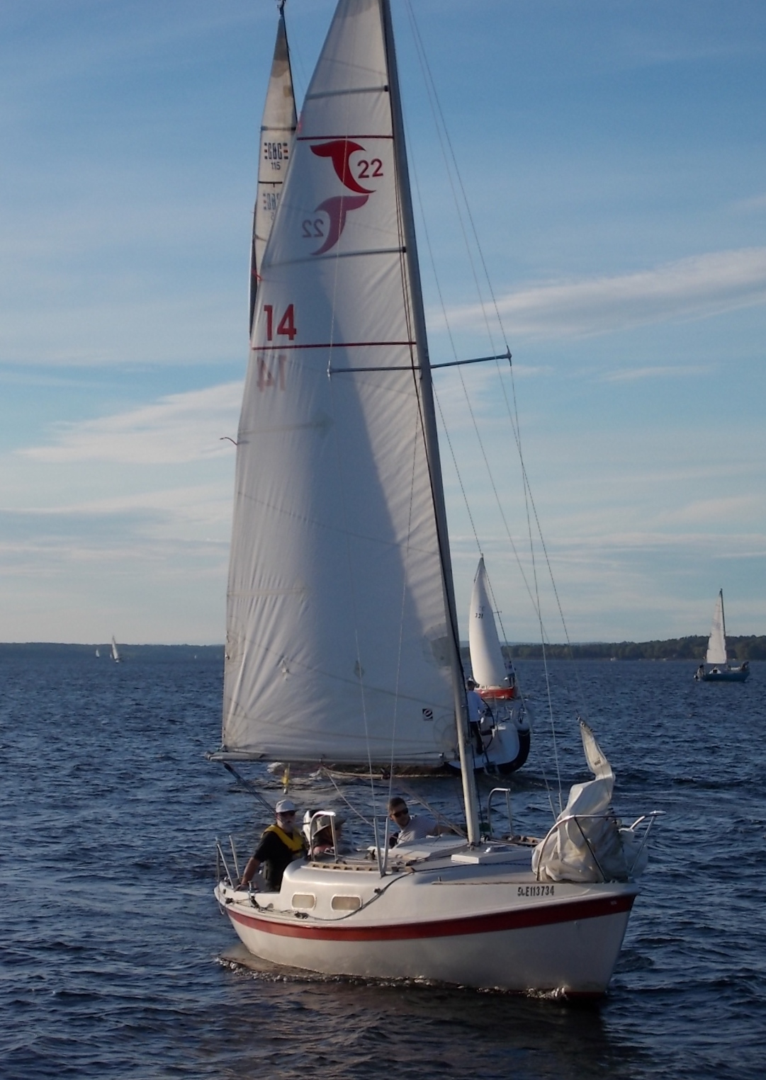 Tanzer 22 sailboat on Lac Deschênes, part of the Ottawa River, Ottawa, Ontario, Canada.